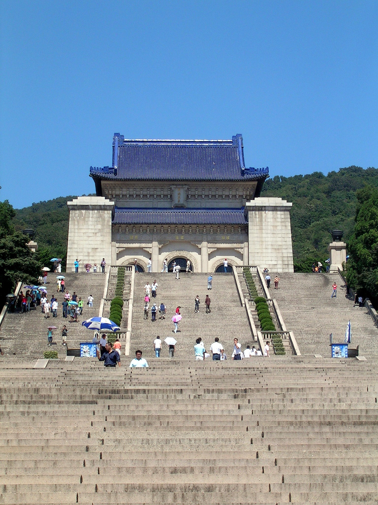 The main hall of Sun Yat-sen Mausoleum